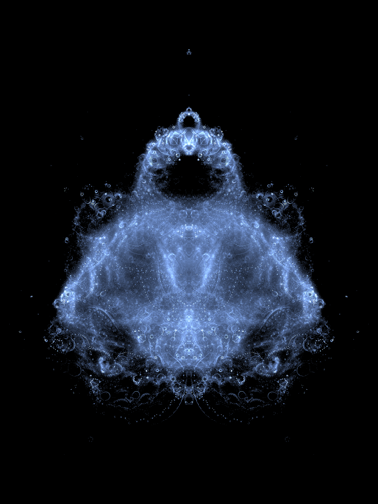 Deeply iterated Buddhabrot.